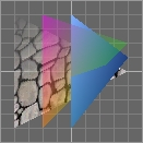 Alpha-Blending technique demonstration